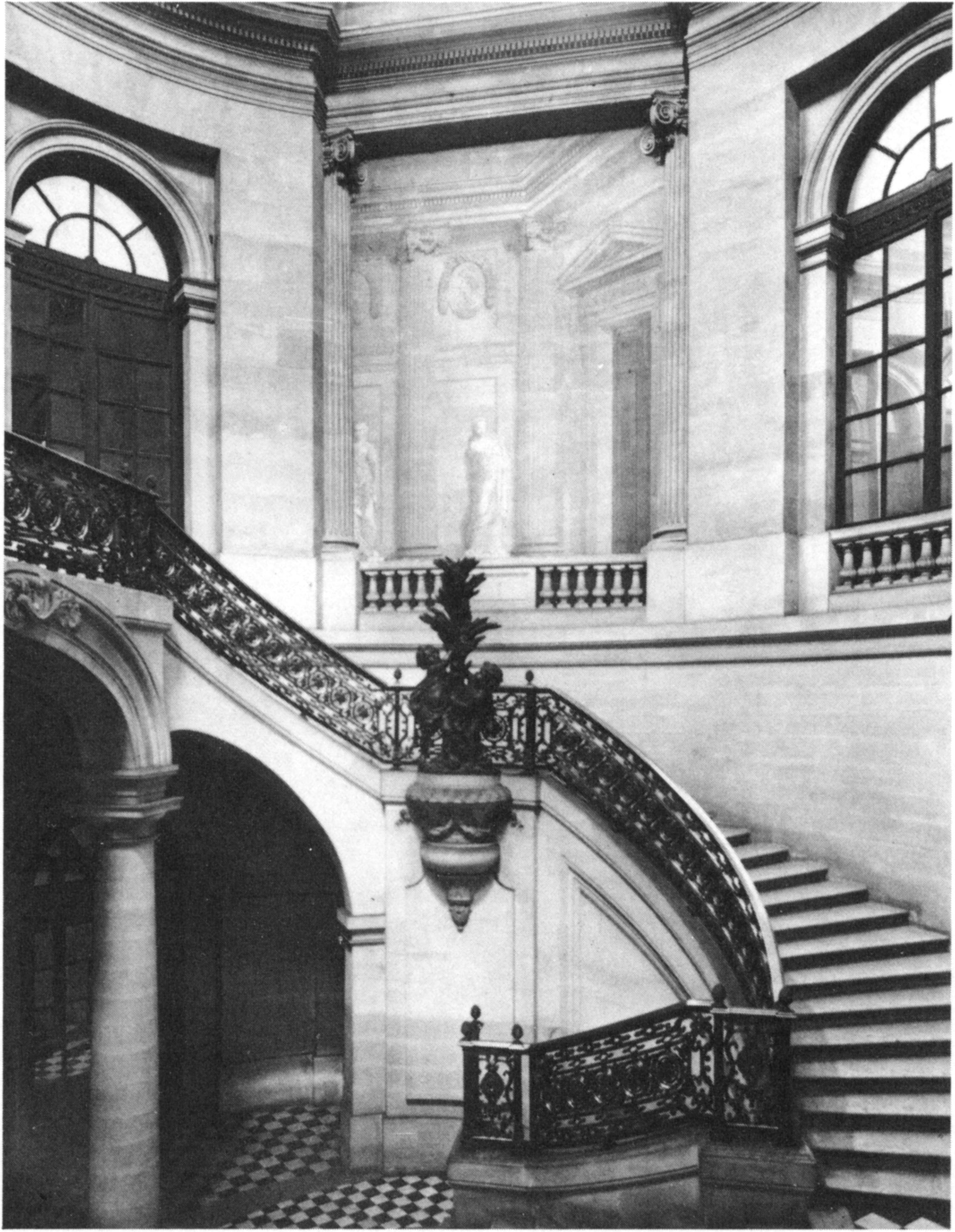 Northern flight of the Grand Staircase of the Palais-Royal in Paris, constructed c. 1764 to the designs of the French architect Pierre Contant d'Ivry